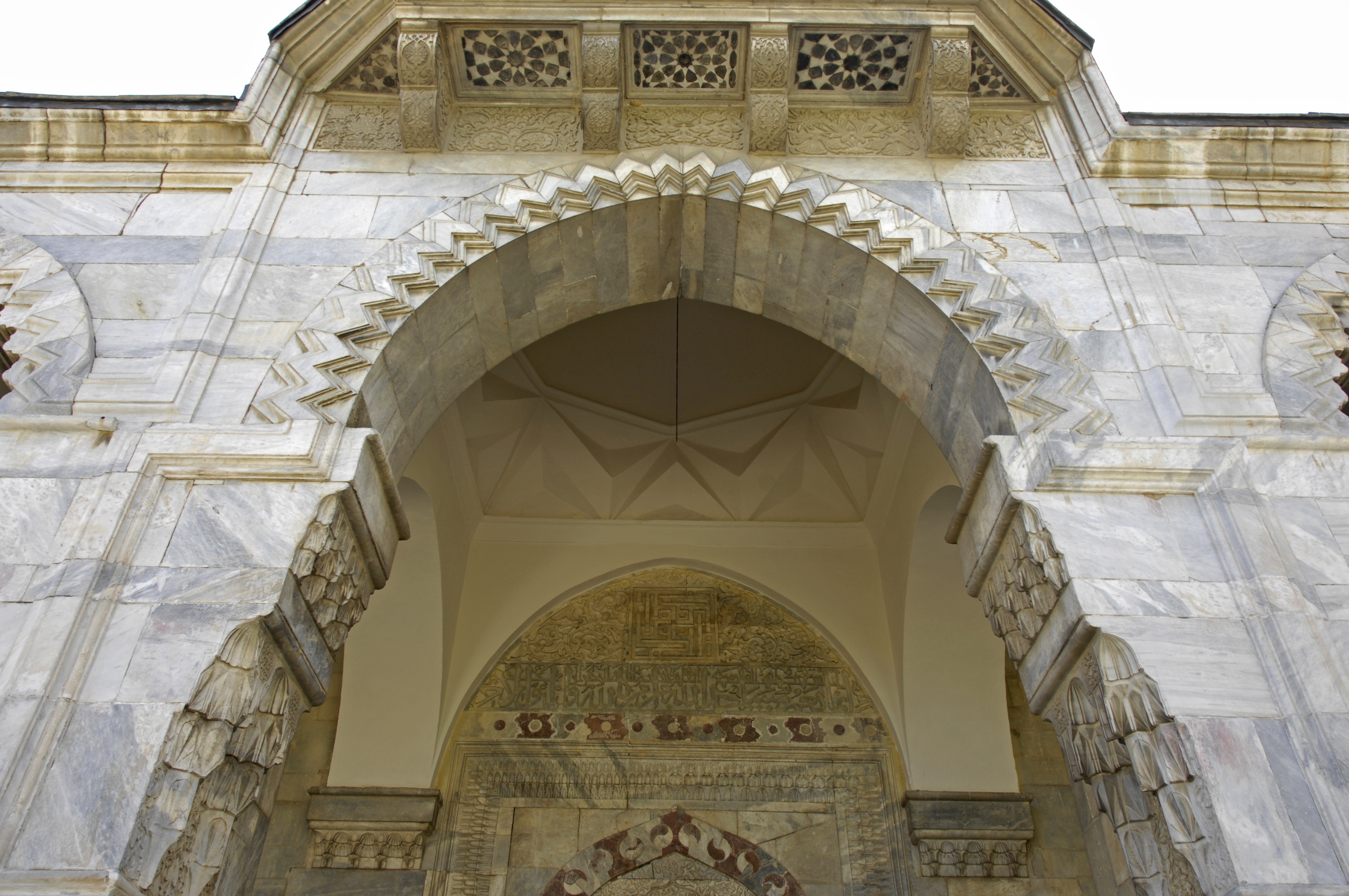 The Gök (Blue, for the colour of its marble) or Firuz Paşa Camii (Mosque), built in 1394 by Hoca Firaz Bey, who was the Menteşe governor of Sultan Beyazid. He was a Grand Vizier of Murat, who was the father of Yıldırım Beyazid. To its west are buildings belonging to a medrese (Qu’oran School). It is also called the Kurşunı of “lead covered” mosque, because its roof is covered with that metal. The mosque is rather small (which was okay for a ‘provincial’ foundation) but has a grand portico and rich carving. This thick and deepset portico as a feature of Bursa type mosques achieved a sense of power and grandeur in the provinces. Here it is matched by the forcefulness of the design of chevrons incorporated into the arches.